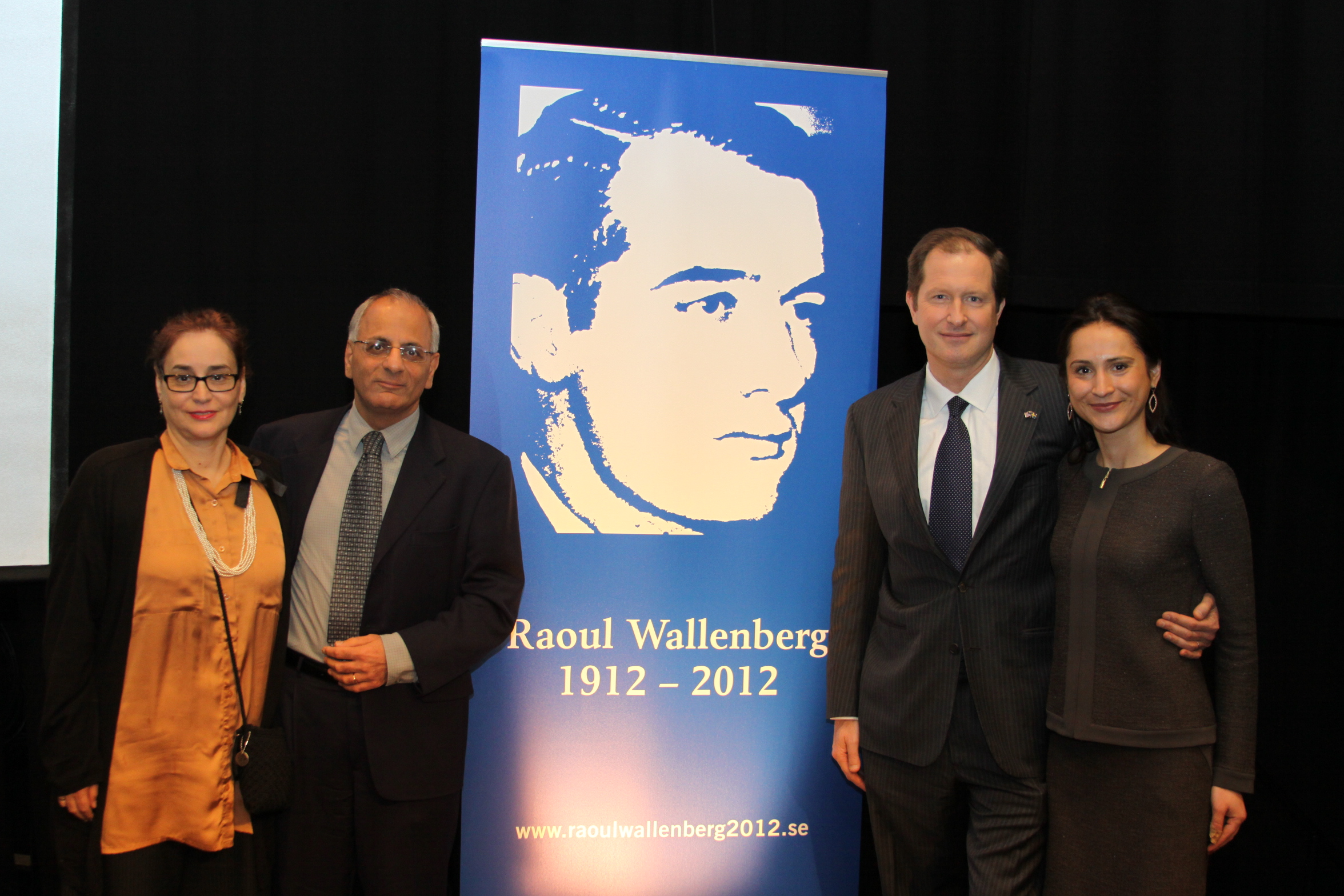 Ambassador of Israel Benny Dagan and Mrs. Irit Dagan and Ambassador of the United States Mark Brzezinski and Mrs. Natalia Brzezinski On April 19, 2012, the Days of Remembrance ceremony was broadcast from the U.S. Capitol Rotunda at a special event at Kulturhuset in Stockholm. A special video message from President Barack Obama, honoring Raoul Wallenberg was broadcast. Opening remarks were given by EU- and Democracy Minister Birgitta Ohlsson, Author Ingrid Carlberg and Ambassador of the United States Mark Brzezinski